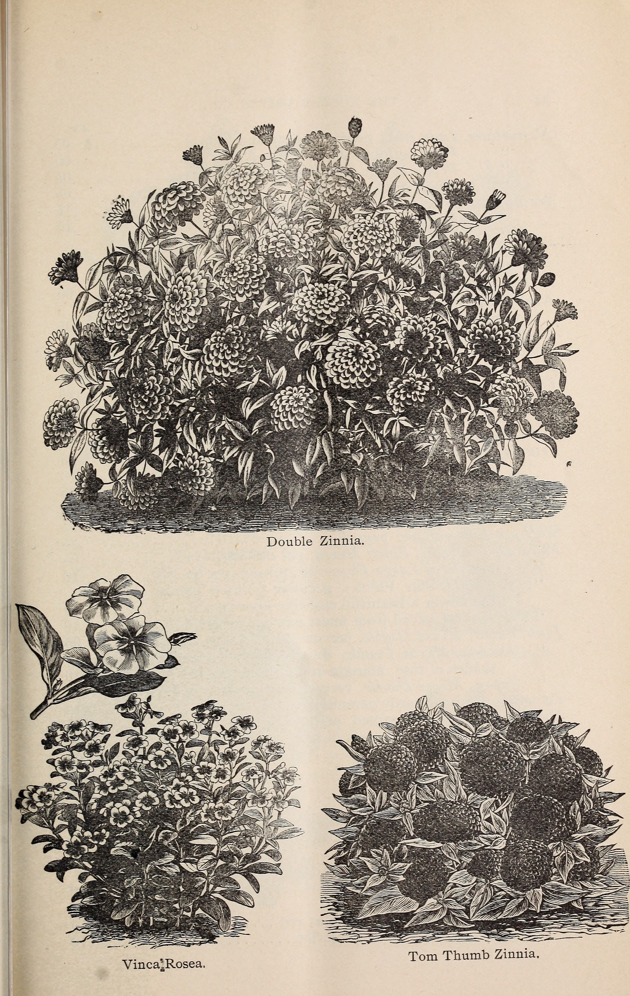 Title: Catalogue of seeds, plants and garden requisites for spring 1900 Year: 1900 (1900s) Authors: Robert Veitch Company; Henry G. Gilbert Nursery and Seed Trade Catalog Collection Subjects: Nursery stock Connecticut Catalogs; Vegetables Seeds Catalogs; Herbs Seeds Catalogs; Flowers Catalogs Publisher: New Haven, Conn. : Robert Veitch Company Text Appearing Before Image: ' Text Appearing After Image: '